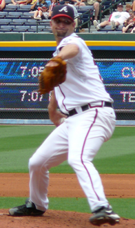 I took this photo on June 5, 2007 04:48, 8 June 2007 . . Chrisjnelson . . 196×330 (116,242 bytes)